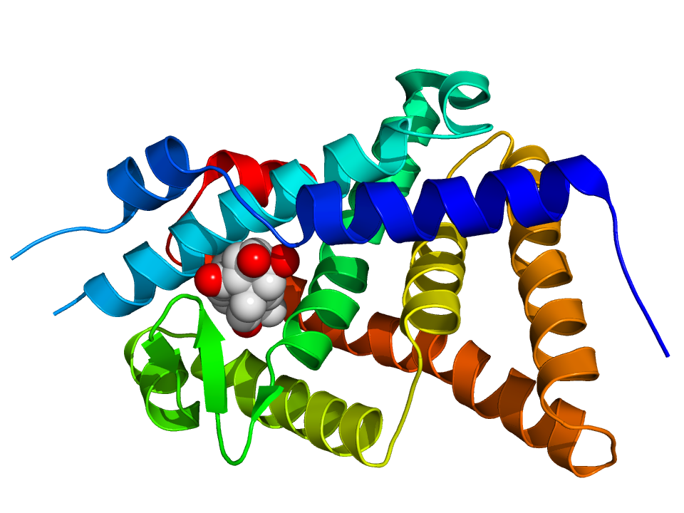 ecdysone phosphate phosphatase